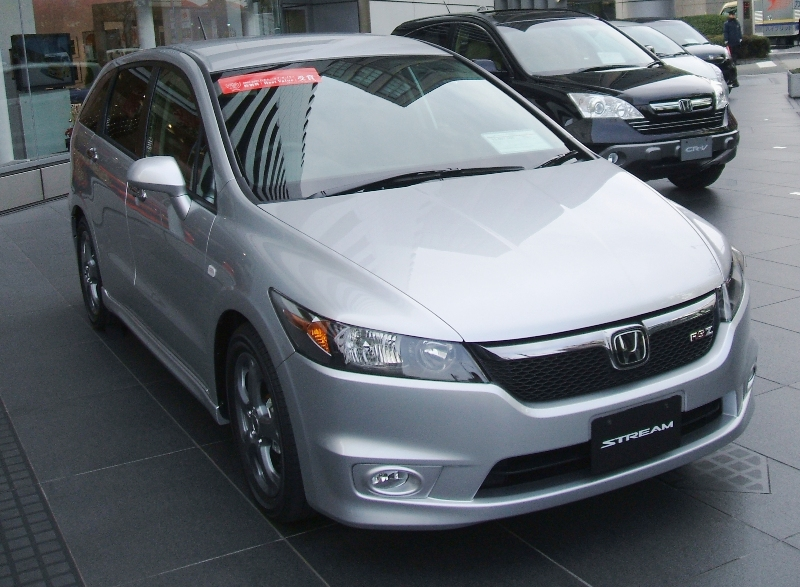 Honda Stream RSZ. 本田Stream RSZ。